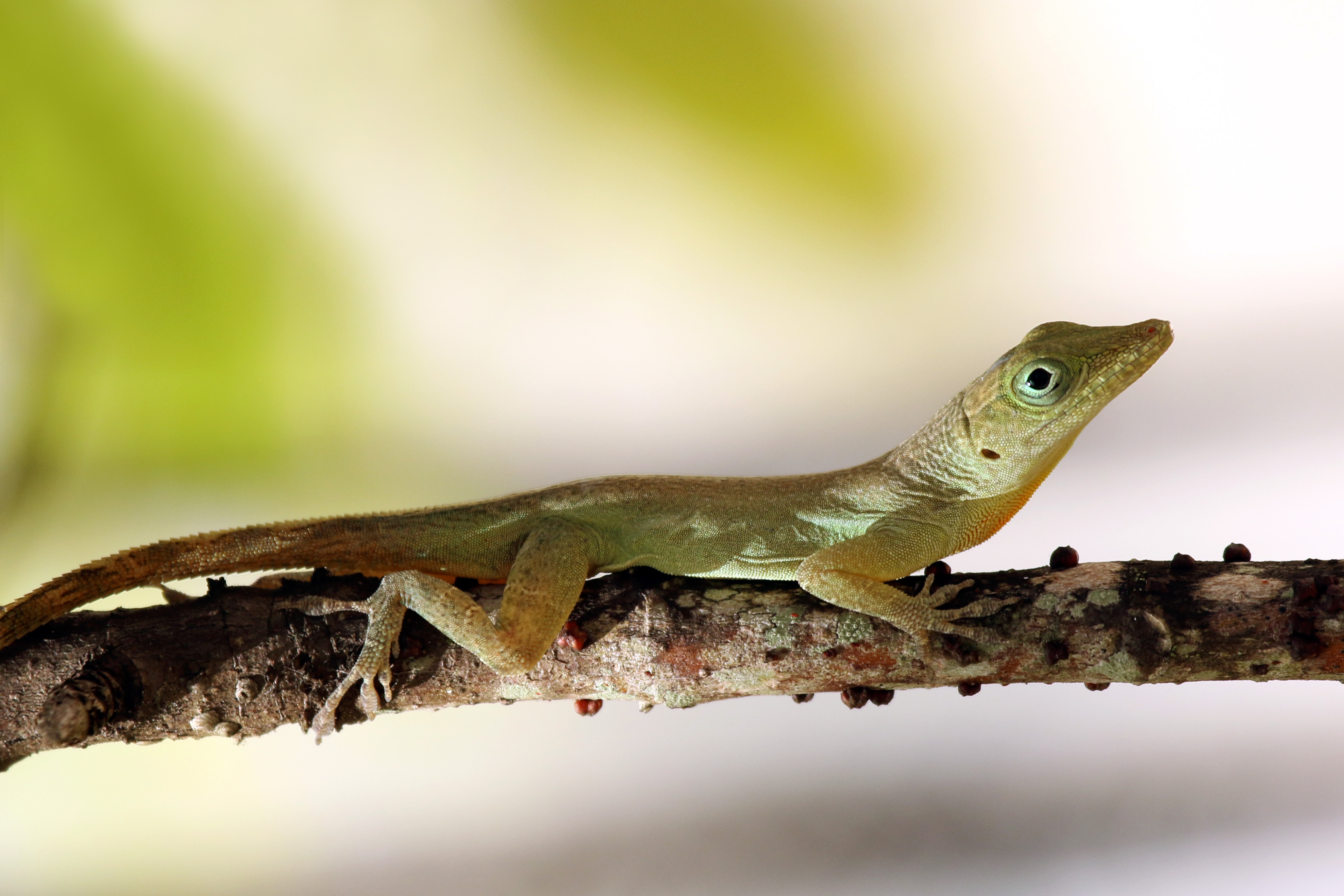 Richard's anole (Anolis richardii), Jamaica